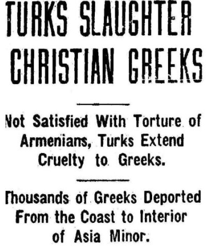 TURKS SLAUGHTER CHRISTIAN GREEKS Not Satisfied With Torture of Armenians, Turks Extend Cruelty to Greeks. Thousands of Greeks Deported From the Coast to Interior of Asia Minor. NEW YORK, Oct. 19.—Not sated by the slaughter of hundreds of thousands of Armenians and Syrians, the Turk has also turned against the Greek Christians in his dominions and more than 700,000 have fallen a victim to persecution in the form of death, suffering or deportation, it was declared here today by Frank W. Jackson, of this city, chairman of the relief committee for Greeks of Asia Minor. He said the real details of these new Turkish atrocities were just beginning to leak out. “The story of the Greek deportation is not yet generally known,” said Mr. Jackson. “Quietly and gradually the same treatment is being meted out to the Greeks as to the Armenians. Although closely guarded, certain echoes of these horrors come out from time to time. “There were some two or three million Greeks in Asia Minor at the outbreak of the war in 1914, subject to Turkish rule. According to the latest reliable and authoritative accounts some seven to eight hundred thousand have been deported, mainly from the coast regions into the interior of Asia Minor.